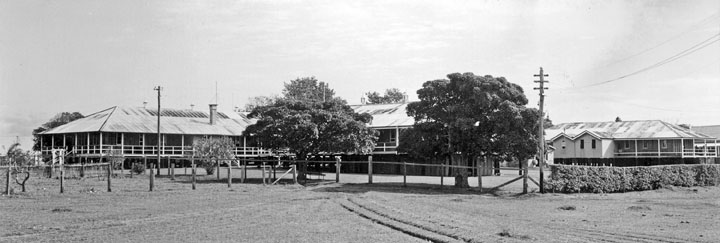 View of Benevolent Asylum, Dunwich, North Stradbroke Island.